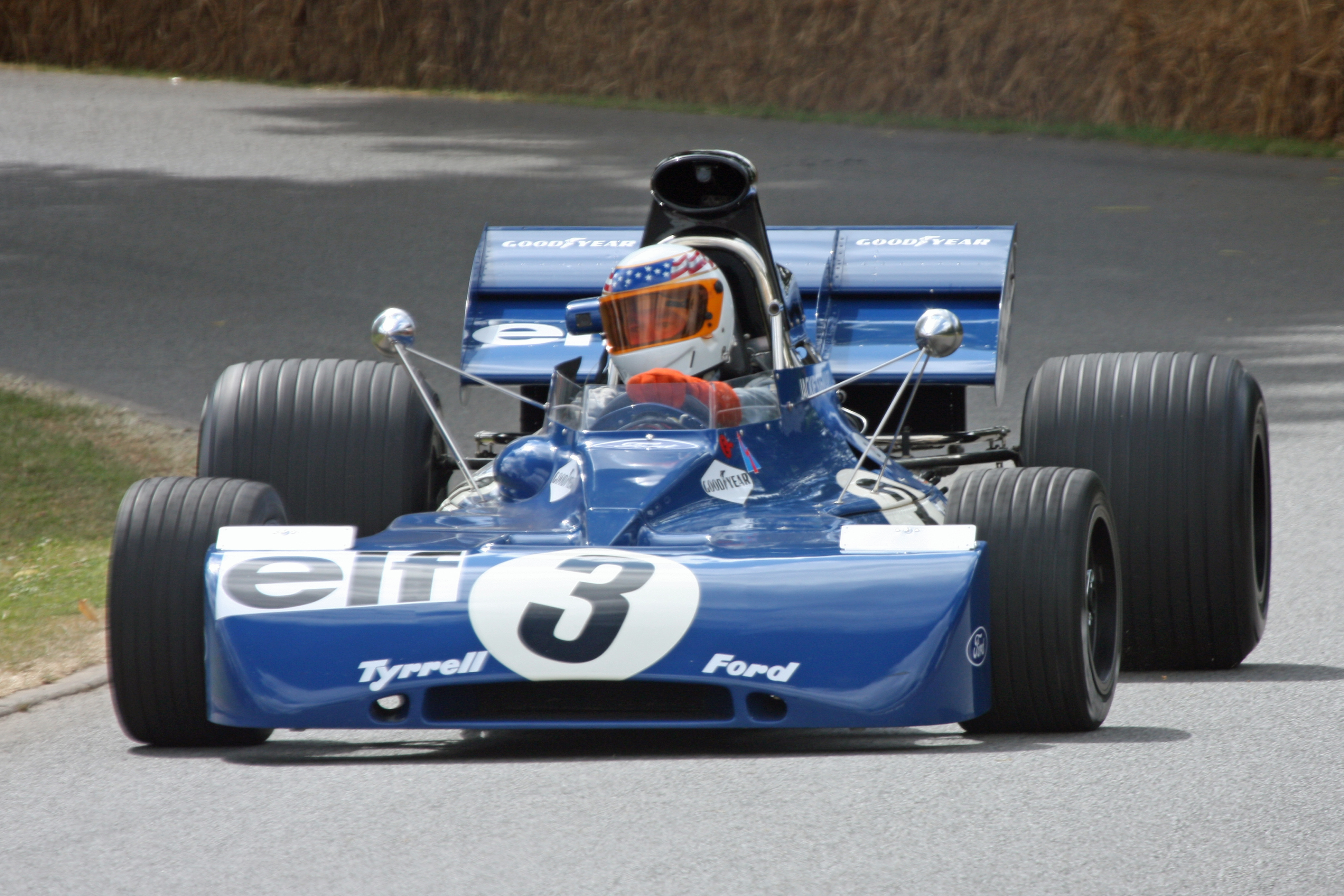 1971 Tyrrel-Cosworth 002